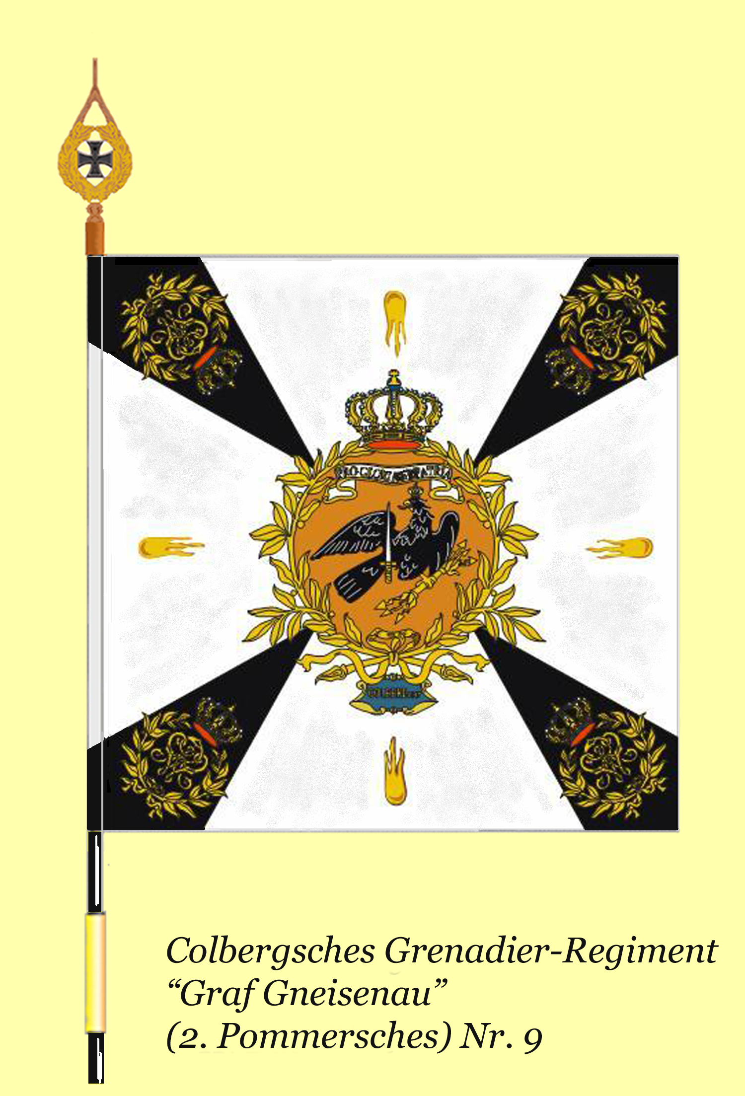 Colors of the prussian 9th Grenadiers Regiment